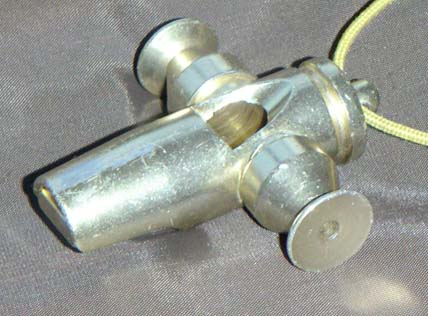 Samba whistle (also called apito), used in percussion groups.